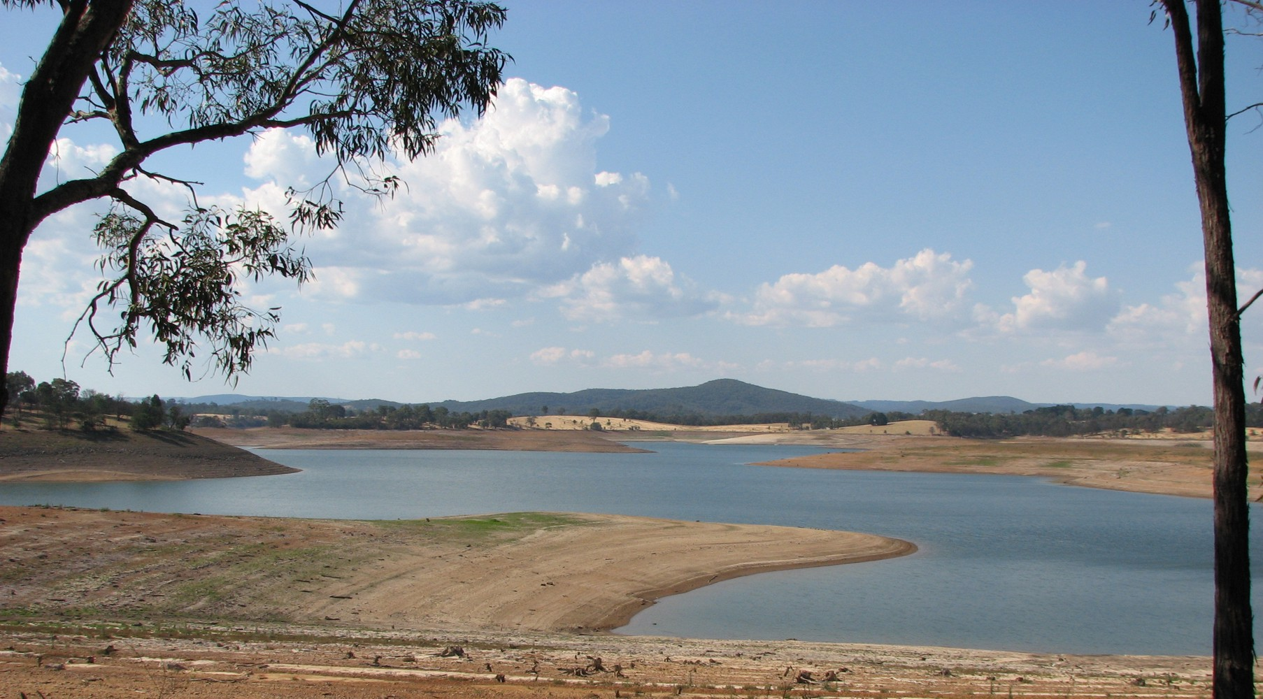 Sugarloaf Reservoir (at 47.6 % capacity), Christmas Hills, Victoria, Australia.